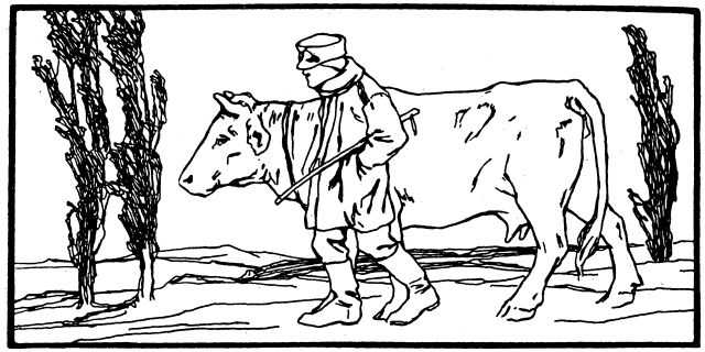 Illustration by Otto Ubbelohde to the fairy tale The Good Bargain